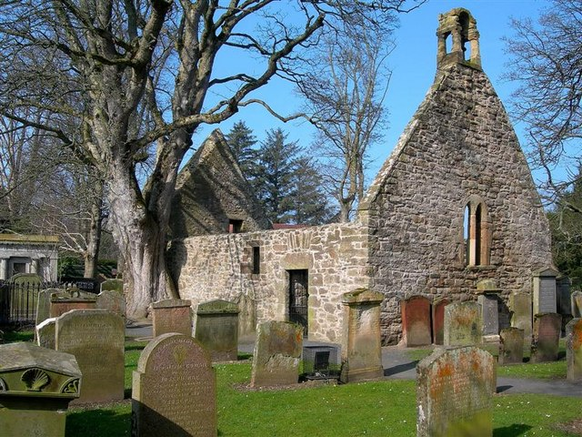 Whare Ghaists And Houlets Nightly Cry Robert Burns used the Auld Kirk as the setting for his well-known tale, "Tam O'Shanter". The hero passes some grisly places before approaching the Auld Kirk. "Kirk Alloway was drawing nigh, Whare ghaists and houlets nightly cry". Tam viewed a scene of "Warlocks and witches in a dance", with music provided by the devil himself. "A winnock bunker in the east, There sat Auld Nick in shape o' beast." To find out what else Tam saw, you'll need to read the poem!